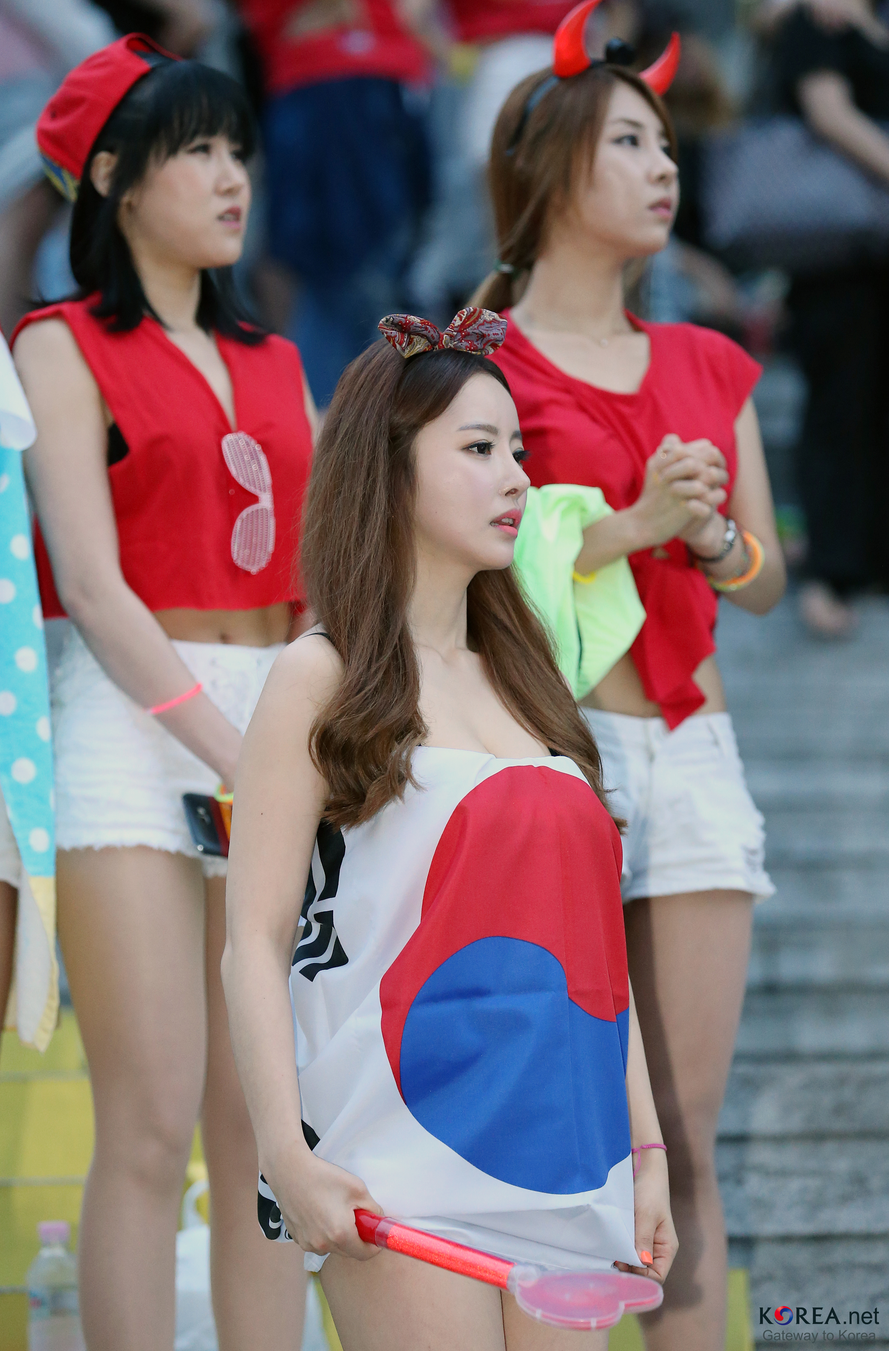 2014 FIFA World Cup in Brazil. Cheers for Team Korea. June 23, 2014. Gwanghwamun Square, Seoul